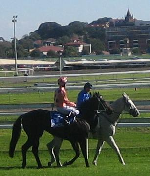 Black Caviar after the T.J. Smith Stakes at Royal Randwick